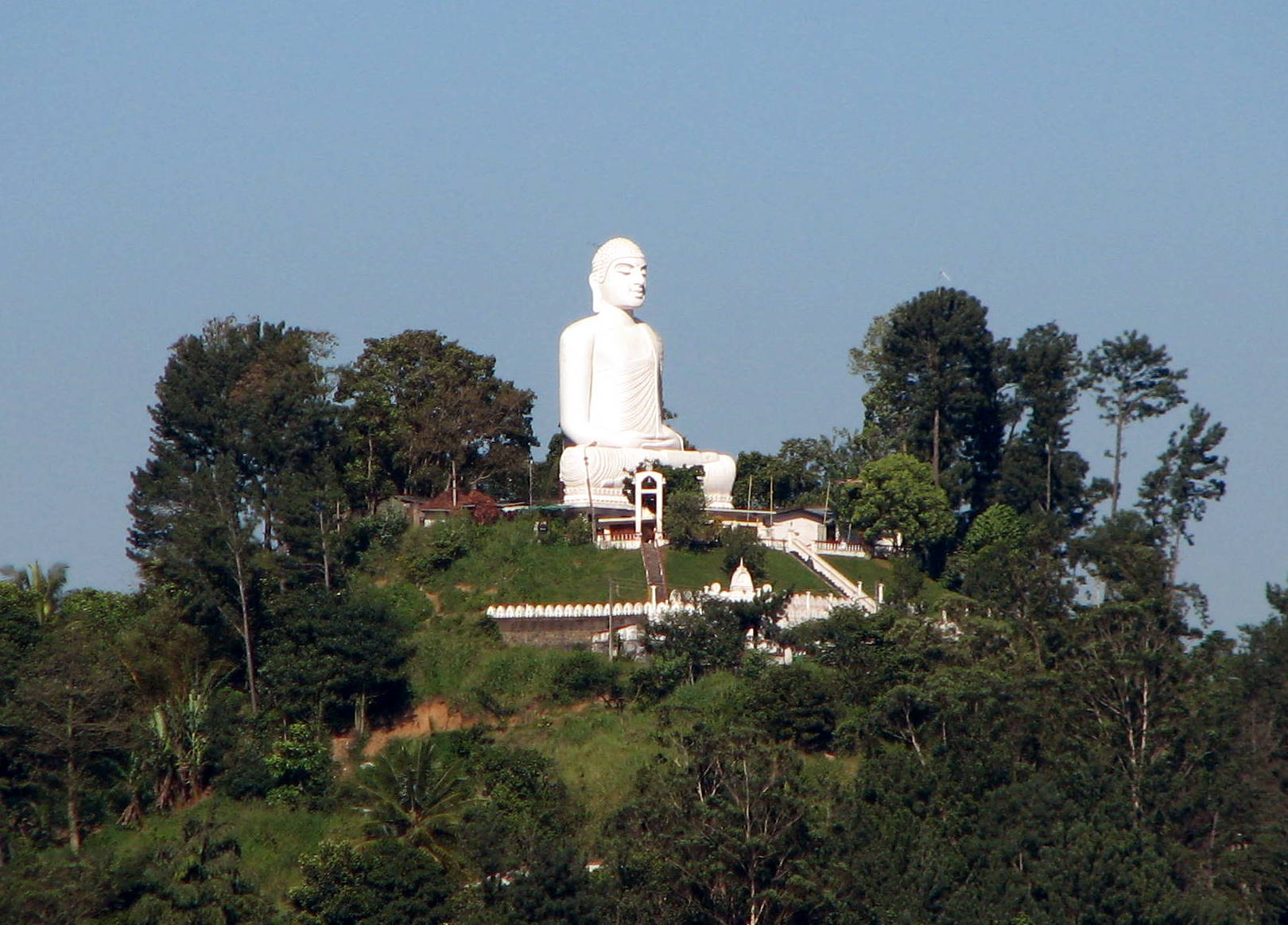 Bahiravakanda Buddha, Kandy, Sri Lanka